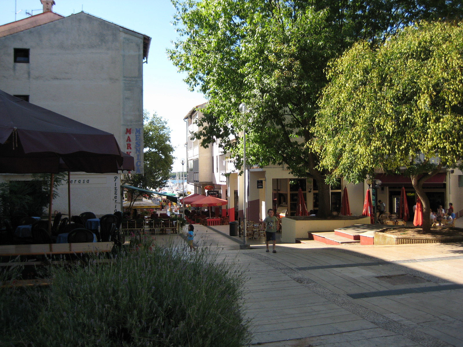 Červar-Porat, turistic settlement in Istria, near Poreč, Croatia